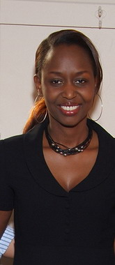 Rwandan Genocide survivor, Immaculeé Ilibagiza presented by African American Family magazine. May 23, 2007